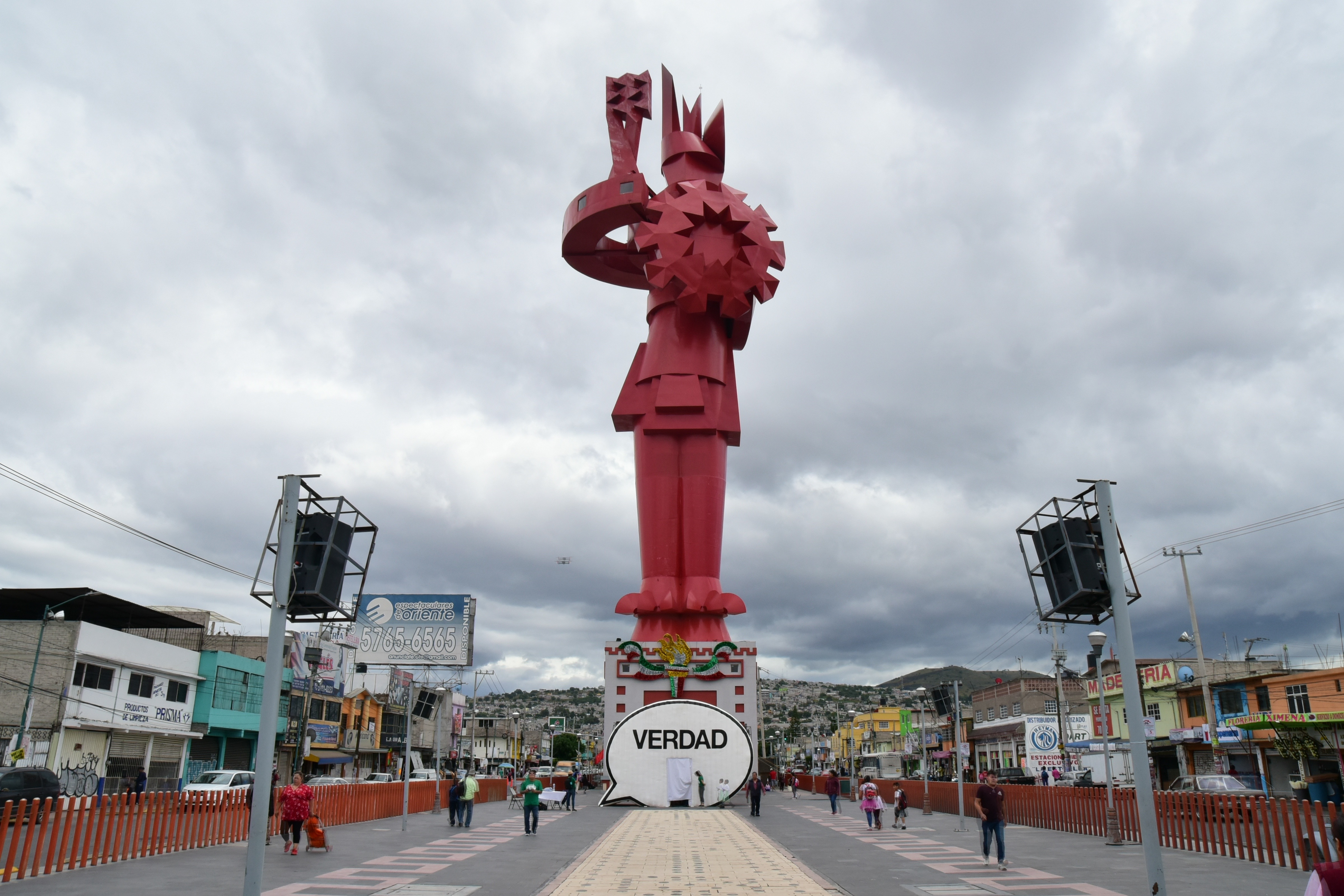 Part of the 'Tour of Mexico', Oct-Nov 2018 for 'In Search of the Truth'.